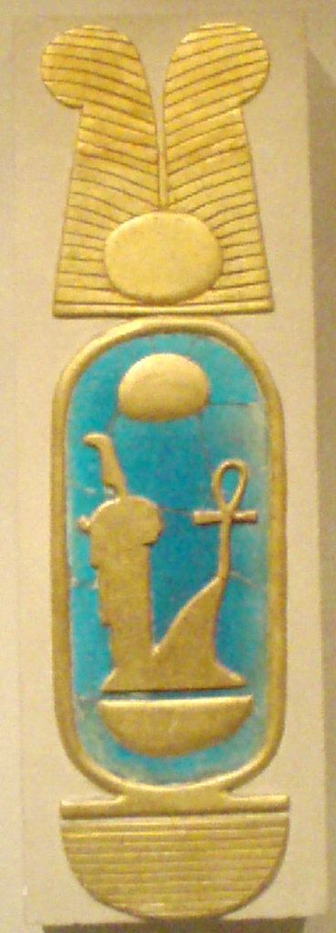 Faience architectural decoration from the palace of Amenhotep III at Malkata, Thebes. Cartouche contaiing the prenomen of Amenhotep III, Nebmaatra. From the 18th dynasty, circa 1417-1379 B.C.